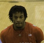 Jordan Hill, then a college basketball player at the University of Arizona.